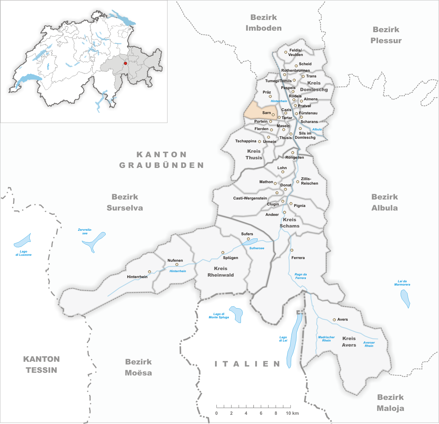 Municipality Sarn